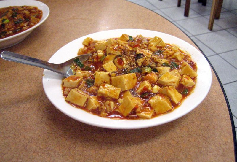 麻婆豆腐 Mapo Tofu as served at the 真川味 restaurant located at 康定路25巷42号; No. 42, Lane 25 Kangding Road in Taipei.